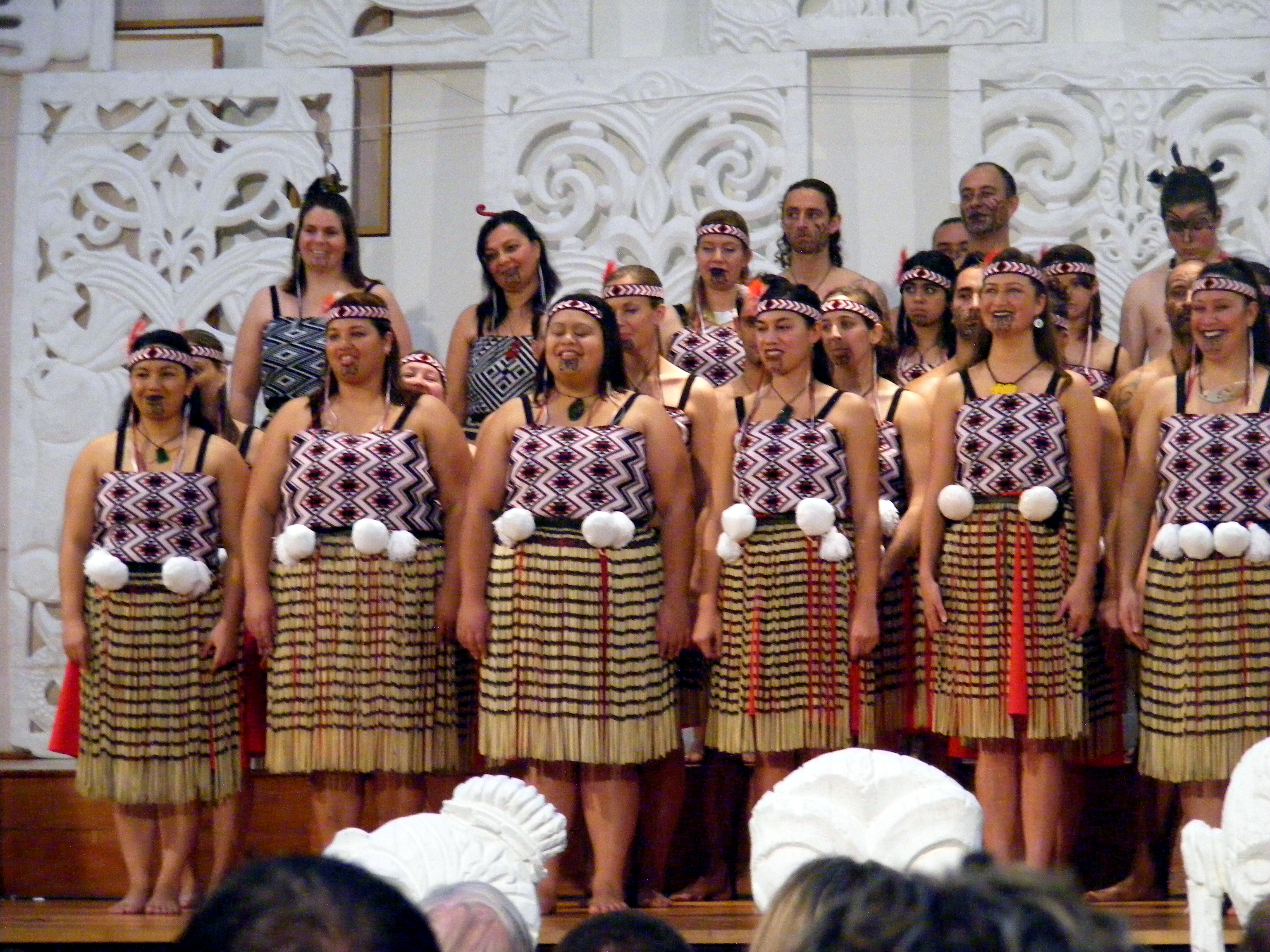 Photo taken by Flickr user: rangi_robinson showing a Christmas concert at Ngati Ranana (London's Maori Cultural Group)